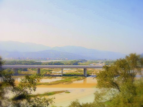 Hengxi Daqiao zhis river is YonganXi.